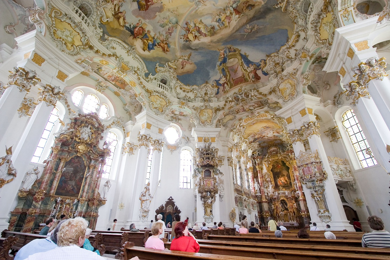 A picture of the Wieskirche.